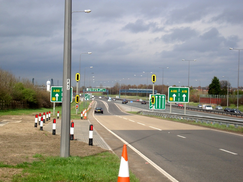 Completed Ramp Metering site prior to signal activation on entry slip road to the A19 in Middlesbrough.